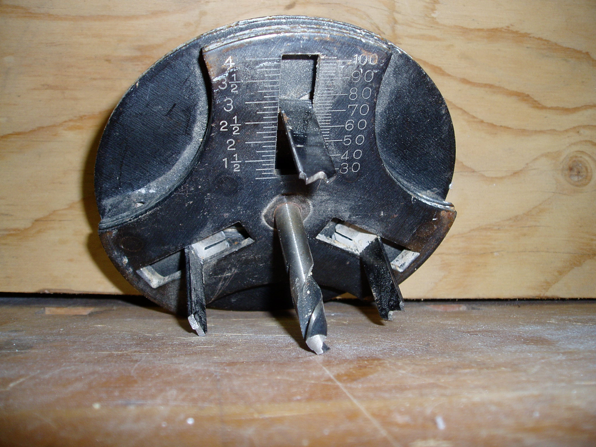 Picture of circle cutter taken 30 August, 2005 by Luigi Zanasi (myself) on my workbench using a Olympus digital camera.